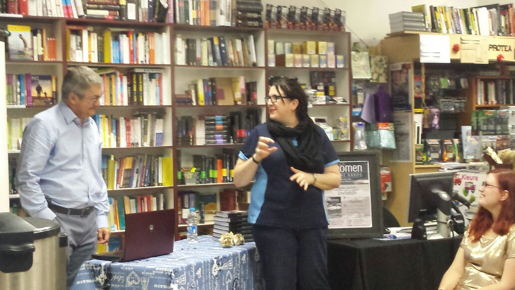 Book launch talk. Introduction of authors Rose Willis, Dr Arnold van Dyk and KC Kay de Villers - Yeomen of the Karoo.Protea Boekwinkel Bloemfontein. Chanele Roodt. Question and answer. This is an image of "African people at work" from South Africa